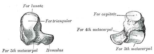 The left hamate bone.